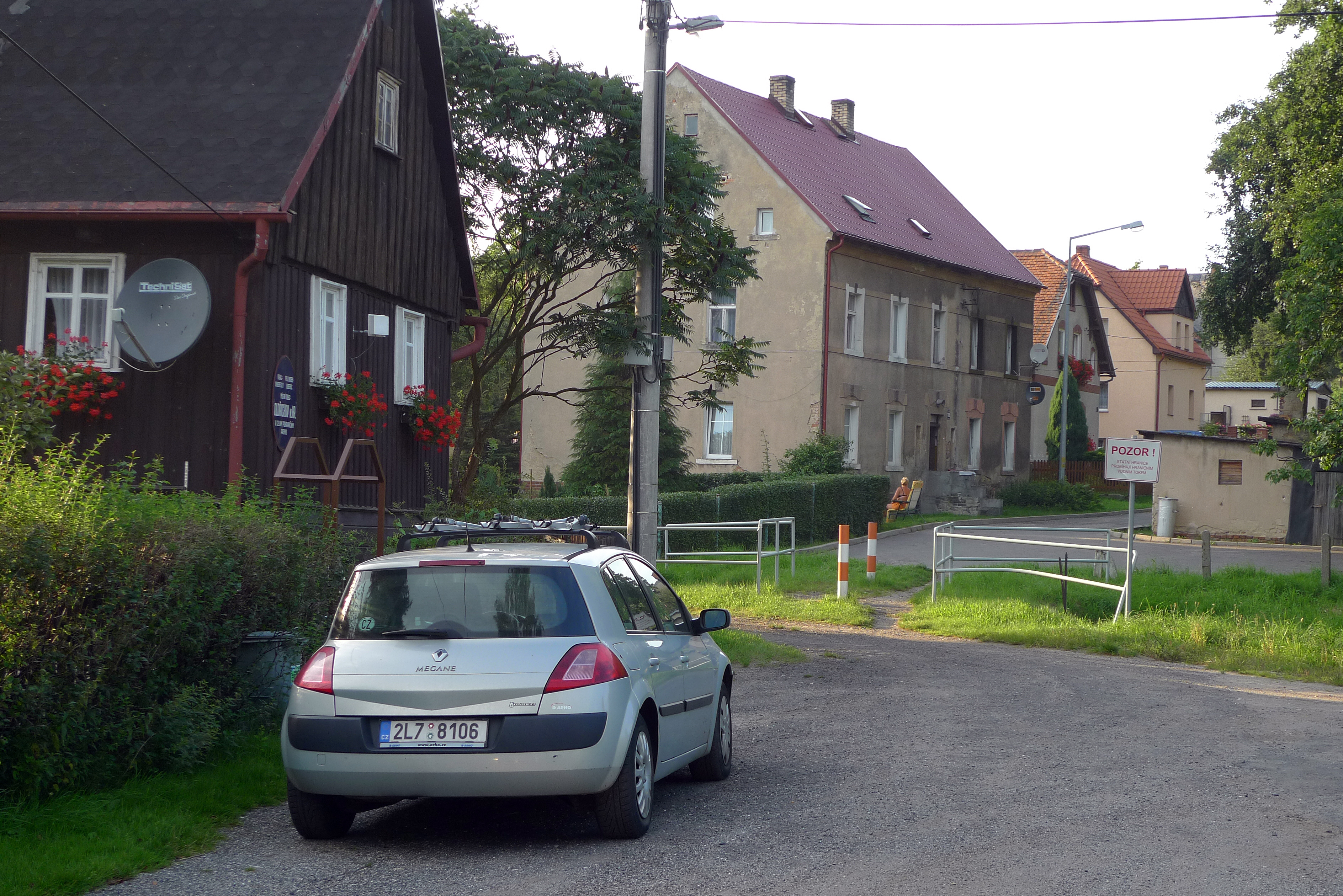 Oldřichov na Hranicích in the Czech Republic